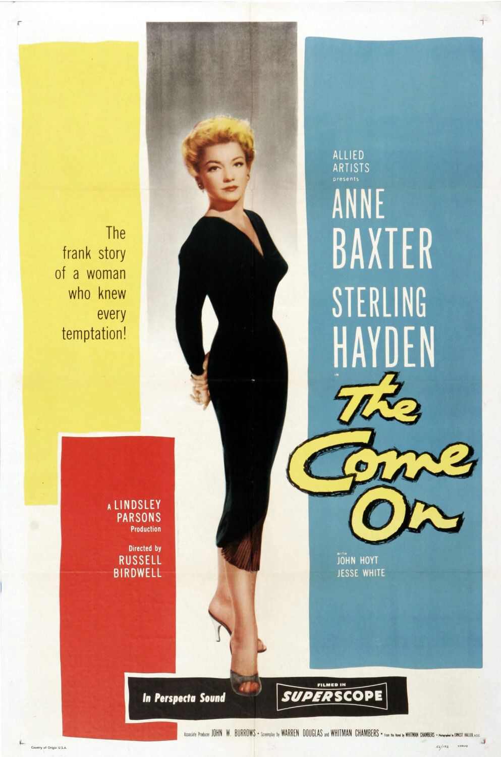 The Come On (1956) movie poster.